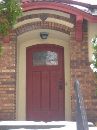 Collins House, 2201 E. Genesee Street, Syracuse, New York. Window detail 2.